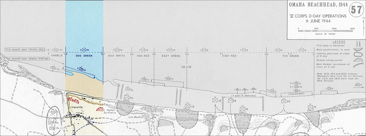 This is a treatment of the image Omaha_beachhead_6_June_1944.jpg already placed in Wikimedia Commons and used in the article Omaha Beach. I believe the source image is already GFDL licensed, and I generated this copy myself.